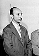 Martin A. Martin of Danville, Virginia is sworn in on May 31, 1943 in Washington, D.C. as the first African American member of the Trial Bureau of the Department of Justice. Mrs. Nellie G. Plumley, appointment clerk, is administering the oath. Behind him is Attorney Oliver Hill of Richmond, Virginia and Frank Coleman, Special Assistant to Attorney-General Biddle.